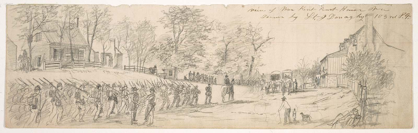 View of New Kent, Court House, Virginia, Object Place: Virginia Catalogue Raisonné Karolik (Civil War) 0946 Dimensions Sheet: 9.3 x 30.8 cm (3 11/16 x 12 1/8 in.) Accession Number 55.850 Medium or Technique Graphite on ruled paper Troops marching in foreground left, towards courthouse right; country house on hill left. Inscription Inscribed in pen and ink upper right corner: view of New Kent Court House Va / Drawn by Lt. J Donaghy 103rd P.V. Provenance Maxim Karolik (1893-1963, Newport); by whom given to MFA October 20, 1955